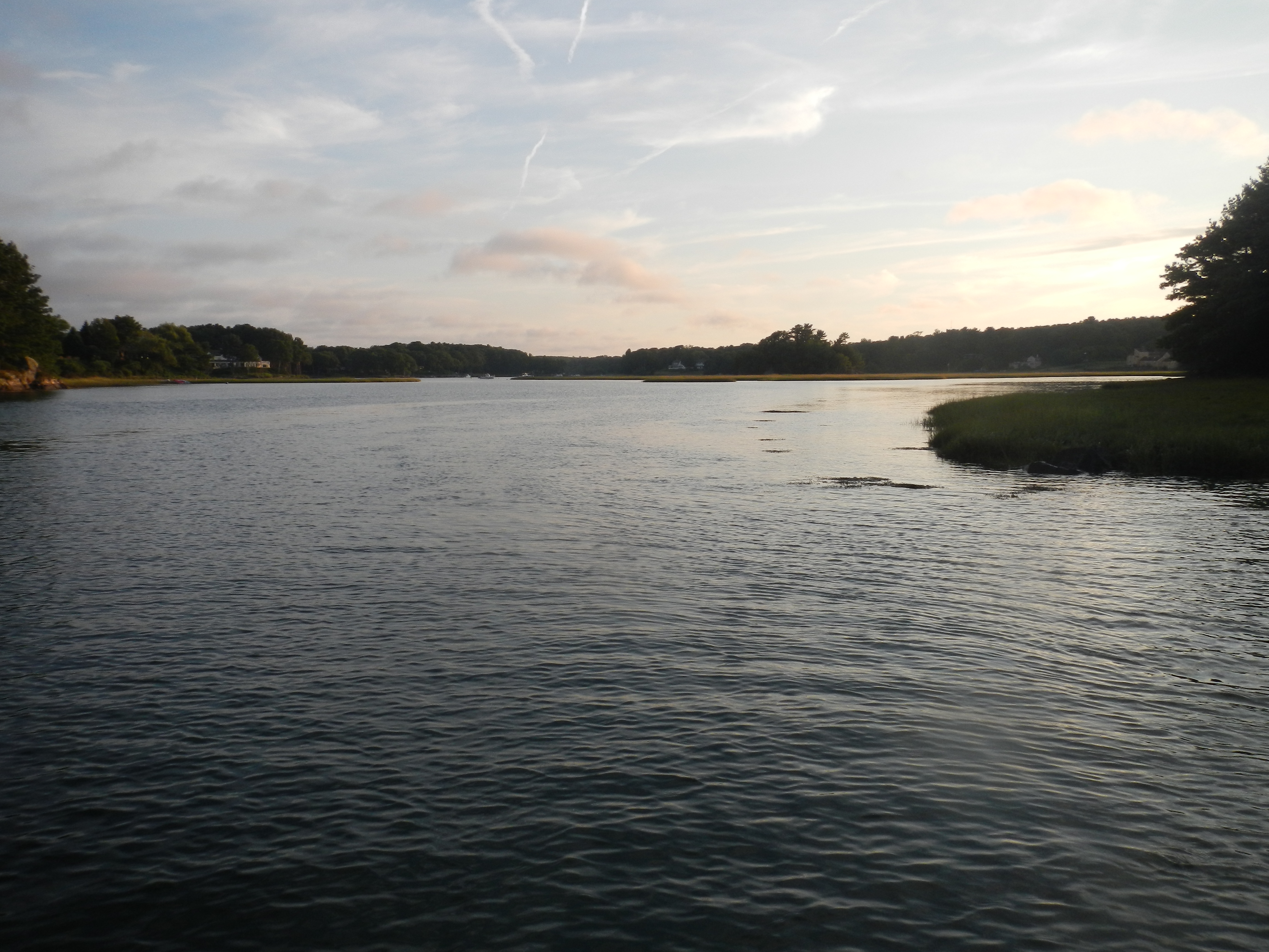 Almost sunset over the Piscataqua River in New Castle, New Hampshire